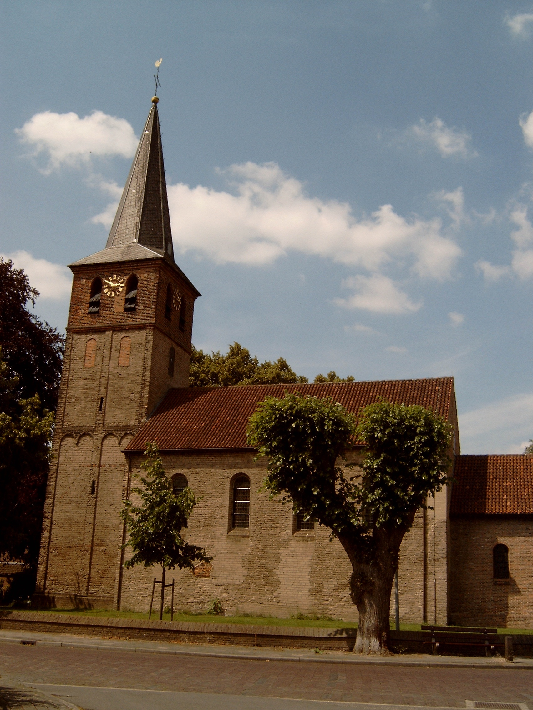 Velp, church